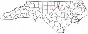 Category:North Carolina Dot Maps